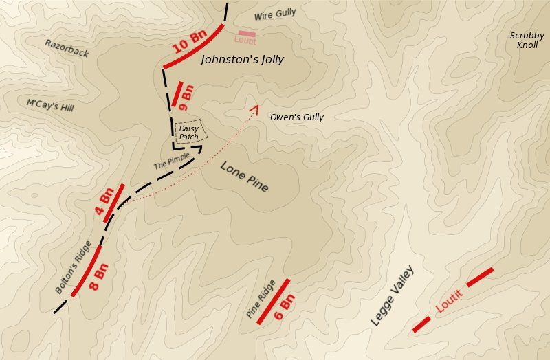 The situation of the Australian 1st Division on 400 Plateau on the first (April 25) and second (April 26) day of the landing at Anzac Cove. Units are shown in red. The position reached by Lieutenant Loutit's party on the third ridge early on the first day is indicated. Following his retreat after 9.30am the survivors took up position overlooking Wire Gully, shown in pale red. The approximate position taken up by about half of the 9th Battalion under Major Salisbury at the head of Owen's Gully is shown. When at about 9am this strong line was abandoned, a large gap developed across the centre of the plateau. The position of Major Bennett's contingent from the 6th Battalion on Pine Ridge is indicated. This group was annihilated on the evening of the first day. The 4th Battalion took up position to the left of the 8th Battalion on Bolton's Ridge in the evening of the first day. On the second day, General Bridges instructed small parties on the plateau to form a line along the edges of the "Daisy Patch"; a flat, scrub-free region covered with flowers. The 4th Battalion mistakenly advanced as well, following the path shown by the dotted red line. The approximate front line that developed across the plateau after the second day is shown as a dashed black line. The dog-leg to avoid the Daisy Patch resulted in a narrow salient, known as "The Pimple". Derived from Map No. 20 in Ch.21, Vol. I "The Story of Anzac" of the Official History of Australia in the War of 1914-18 by C.E.W. Bean.